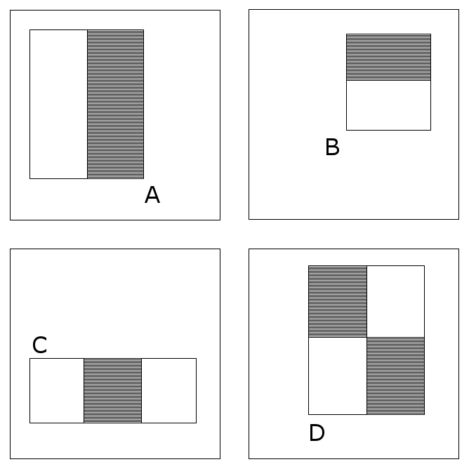 Figure showing the type and configuration of feature detectors used by the Viola & Jones Robust Real-time Object Detection Framework.